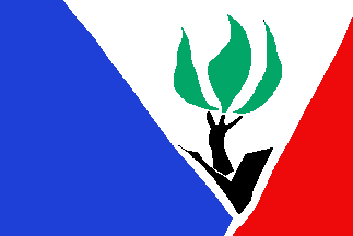 Flag of Hazelwood, Missouri, from 1971.